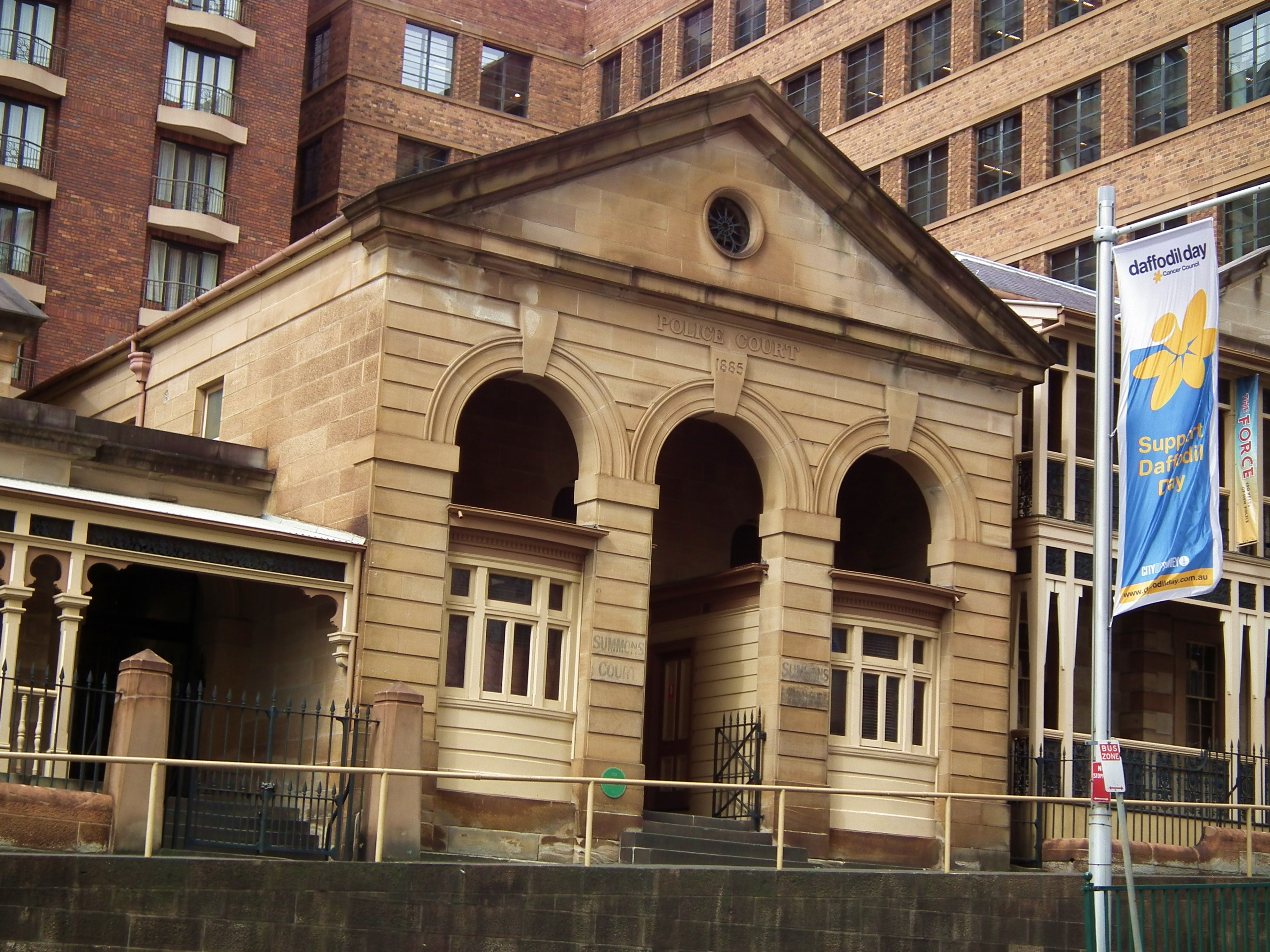 Justice and Police Museum (Former Water Police Courts) - Sydney, New South Wales. Built 1854-86. Located at 4-8 Philip Street. The three buildings making up the Justice and Police Museum were originally built for the Water Police. Number 4 Philip St was opened in 1856 as a Court House, Number 8 in 1858 as a Police Station and Number 6 in 1886 as a Court House. This is number 6.